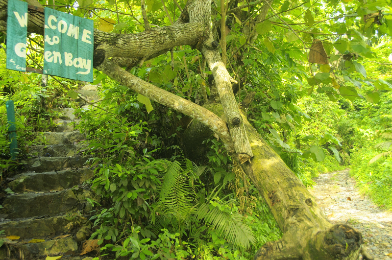 Green Bay, Meru Betiri National Park, Banyuwangi